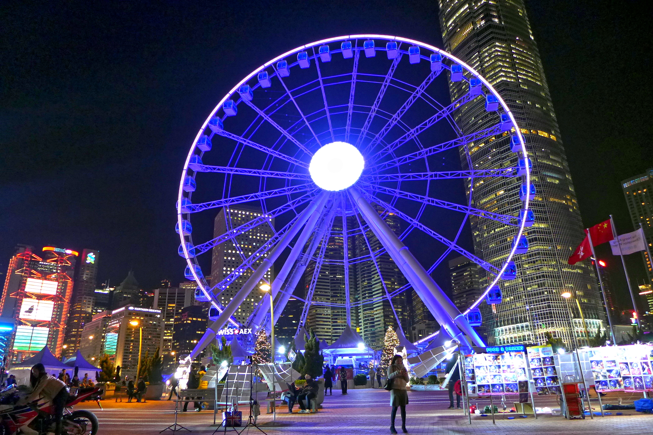 The Hong Kong Observation Wheel